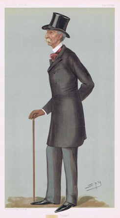 Caricature of Lt-General Julian Hamilton Hall (1837-1911). Caption read "Julian".